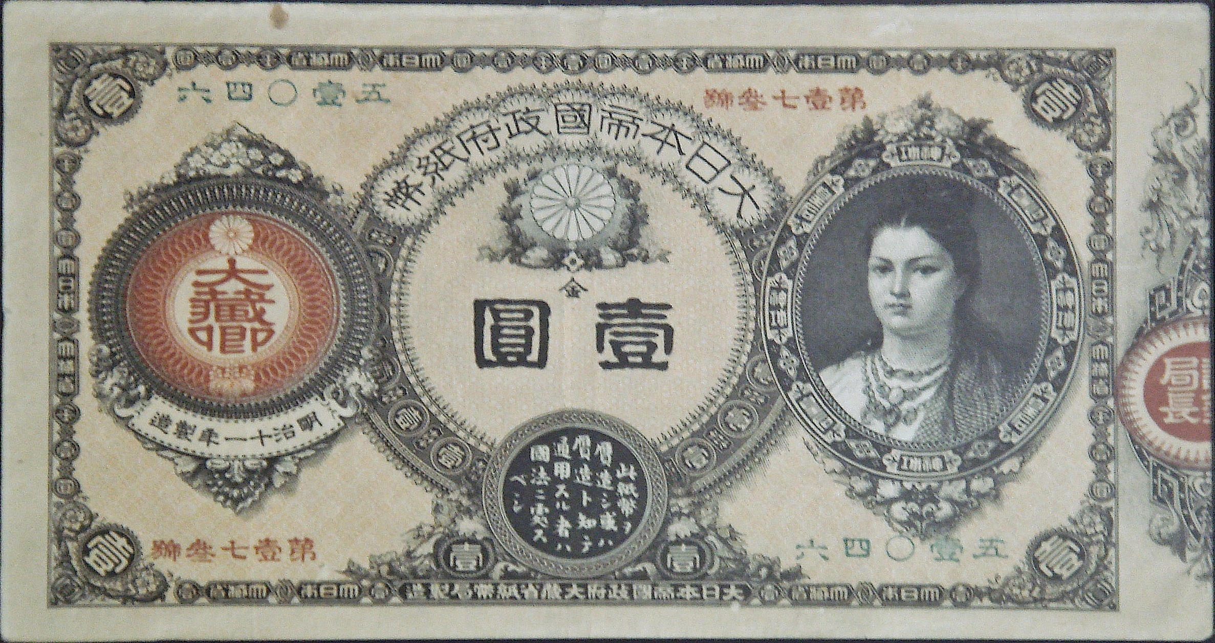 Jingusatsu_1881